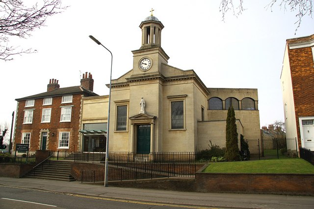 St.Mary's church. Roman Catholic church on North Parade by E.K.Wilson in 1832. The red brick presytery to the left of the church is also a Grade II listed building.